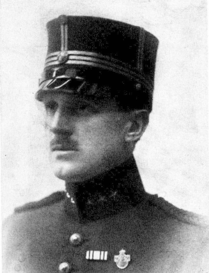 Swedish army officer and gymnast Torsten Oswald Magnus Holmberg